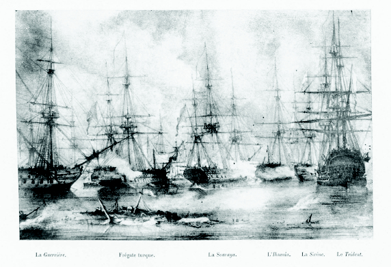 Battle of Navarino : Egyptian and french ships.